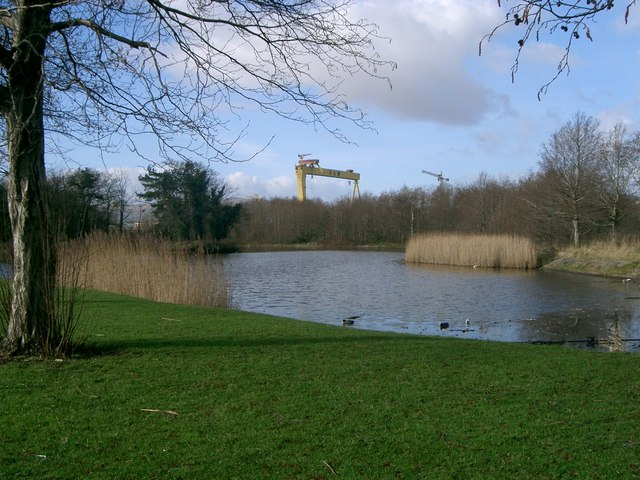 Victoria Park 119498